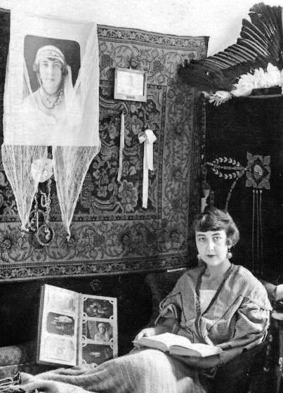 Anna Rudawcowa in home. Anna Rudawcowa (1905-1981) - Polish poet and writer, teacher, Polish patriotic activist; during WWII an exile to Siberia (Russia).